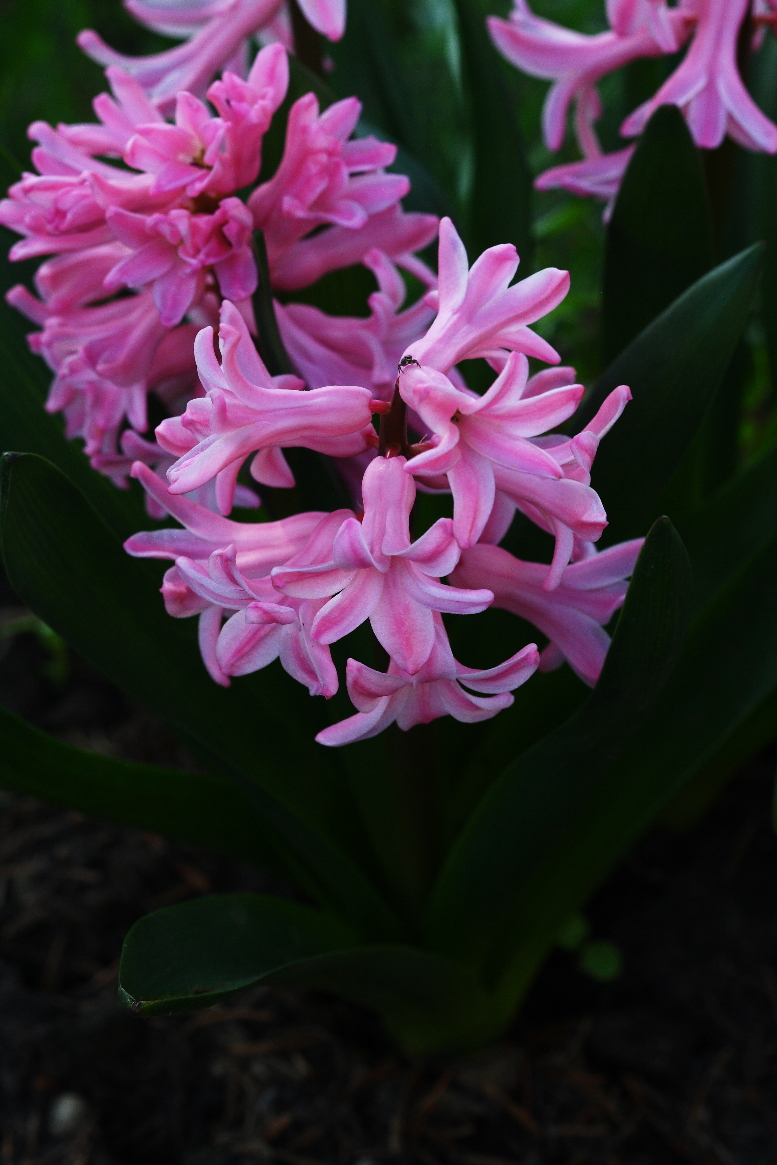 Hyacinthus orientalis